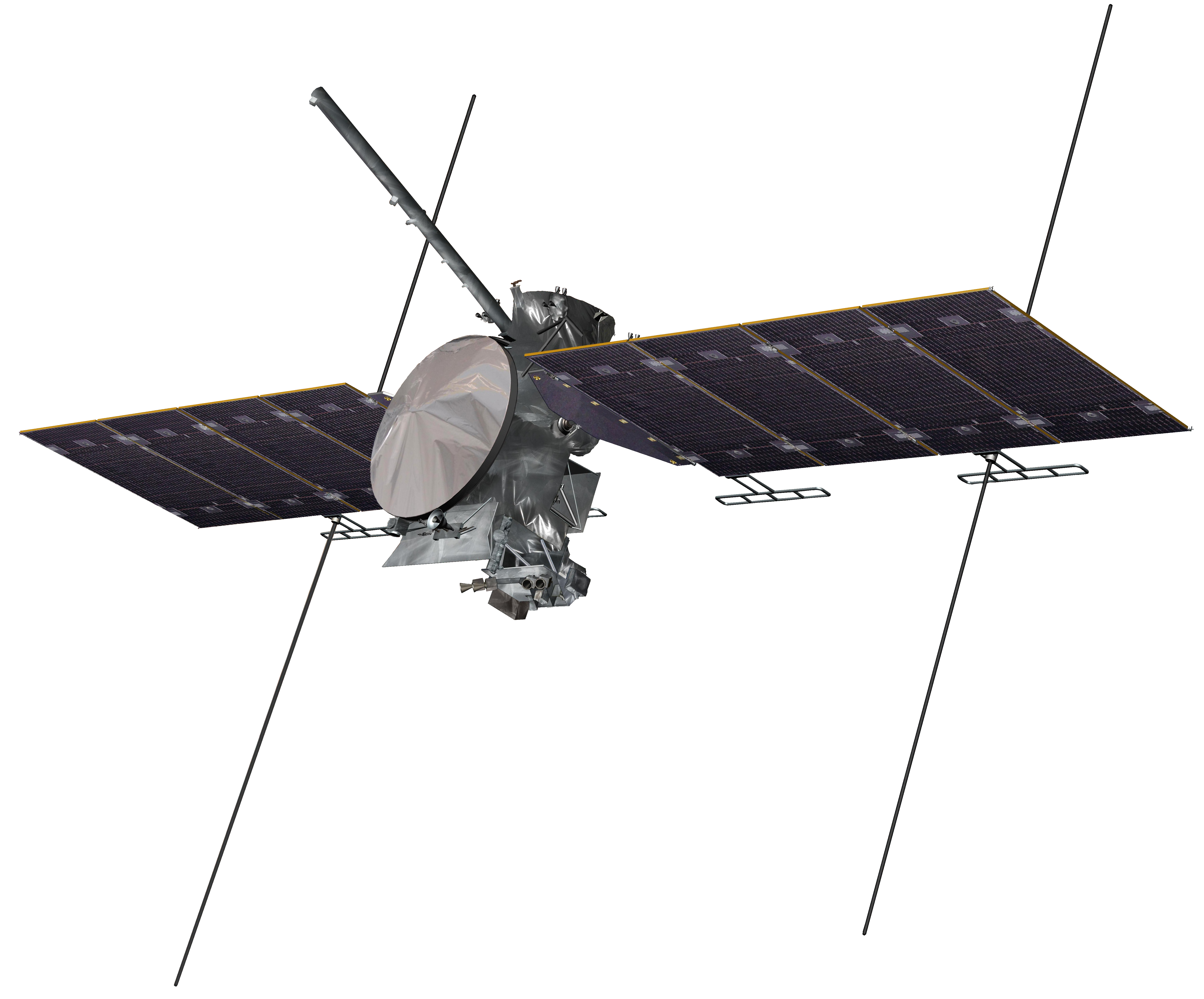 Transparent background version of the Europa Clipper spacecraft rendering, per the official JPL website.